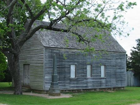 Description: Replica of the building where the Texas Declaration of Independence was signed. Washington-on-the-Brazos, Texas. Source: Photograph by J. Williams Date: March 29, 2003